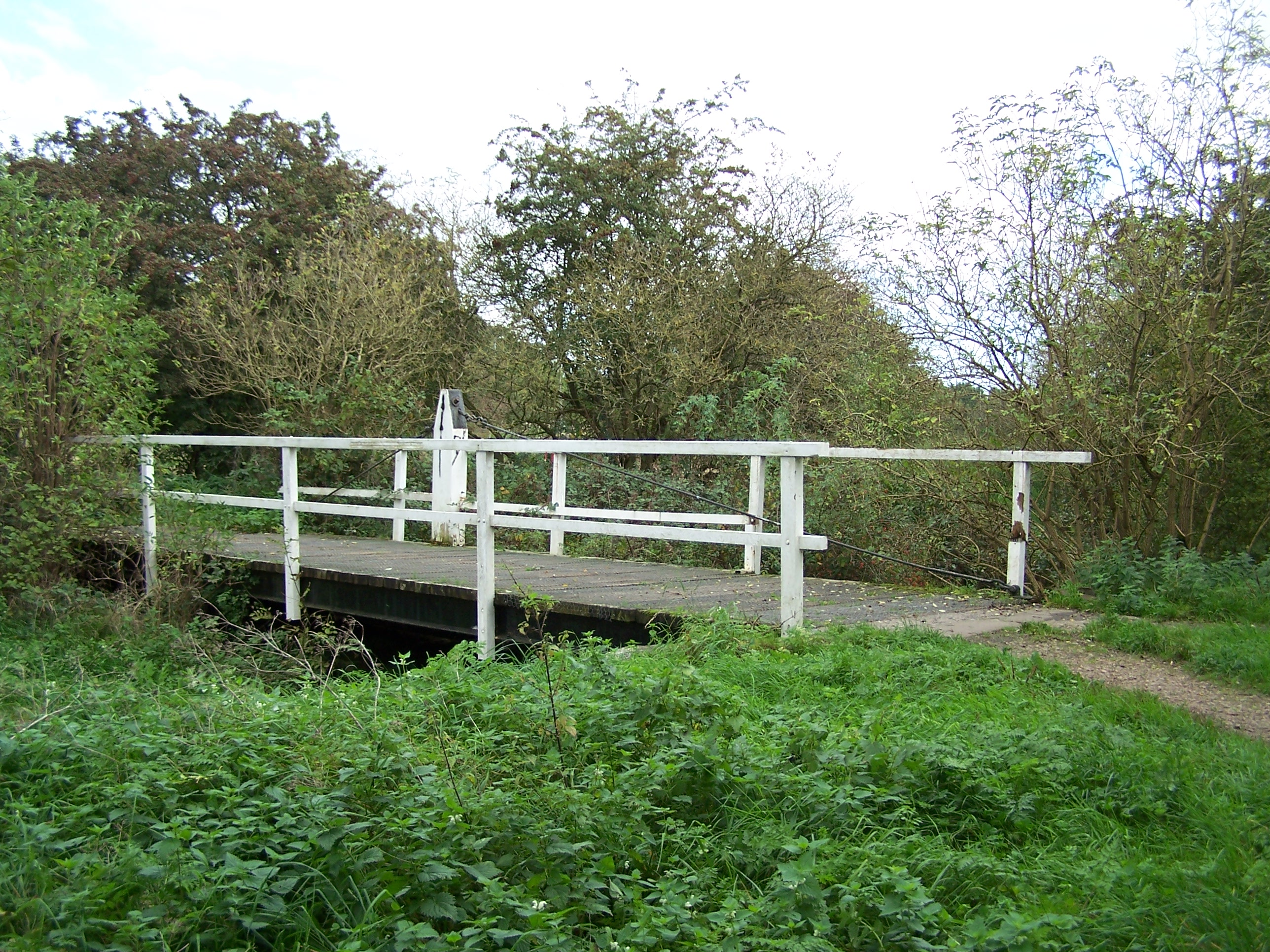 Author: Tina Cordon, Source: Own Picture Tina Cordon 17:36, 19 October 2006 (UTC)